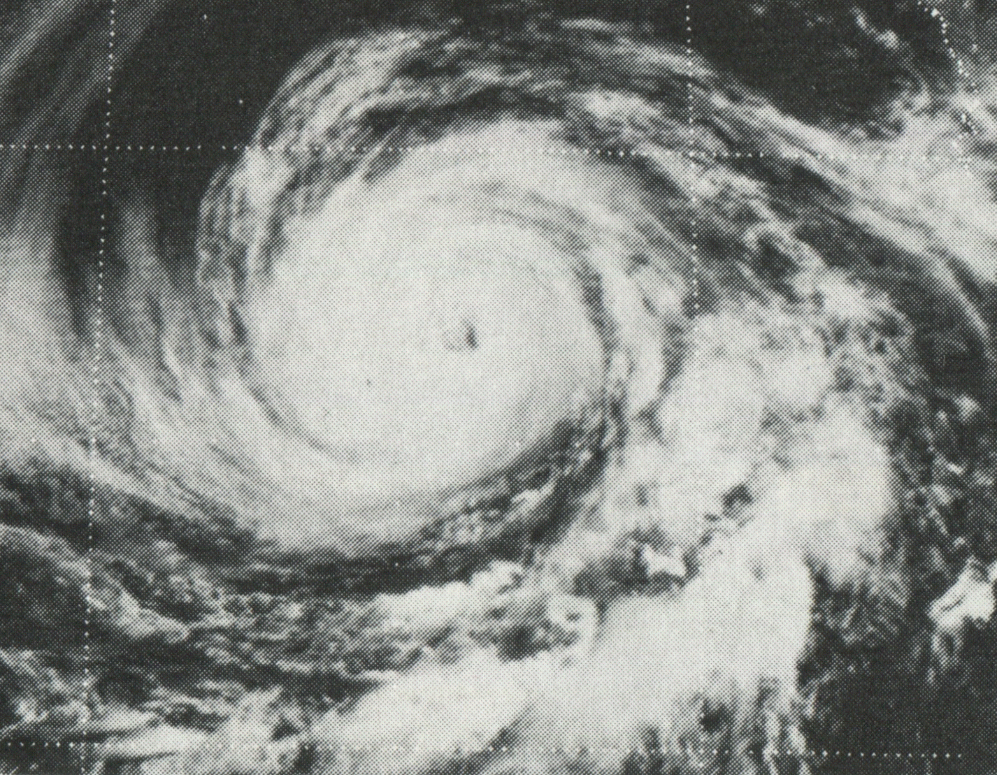 This SMS 2 satellite picture of Hurricane Carlotta was taken on July 5, 1975 at 1645 UTC